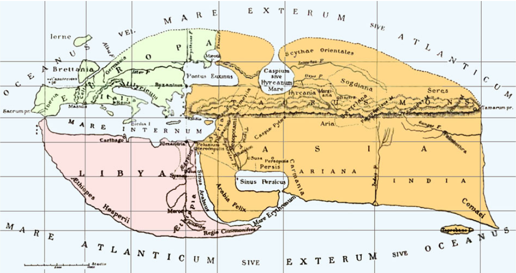 reconstruction of the inhabited world according to Strabo